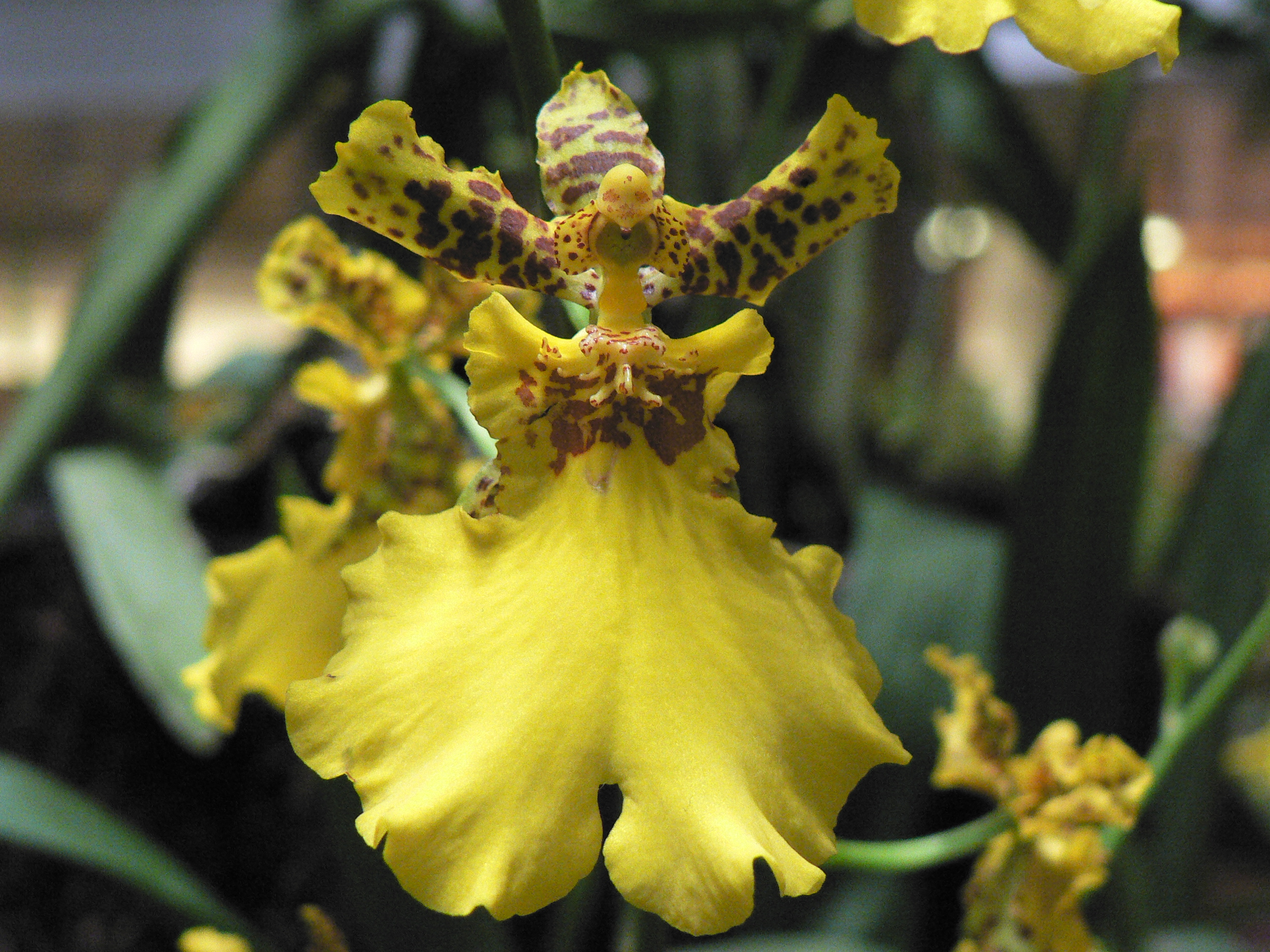 An Orchid cultivar (Oncidium cultivar) at Singapore airport.